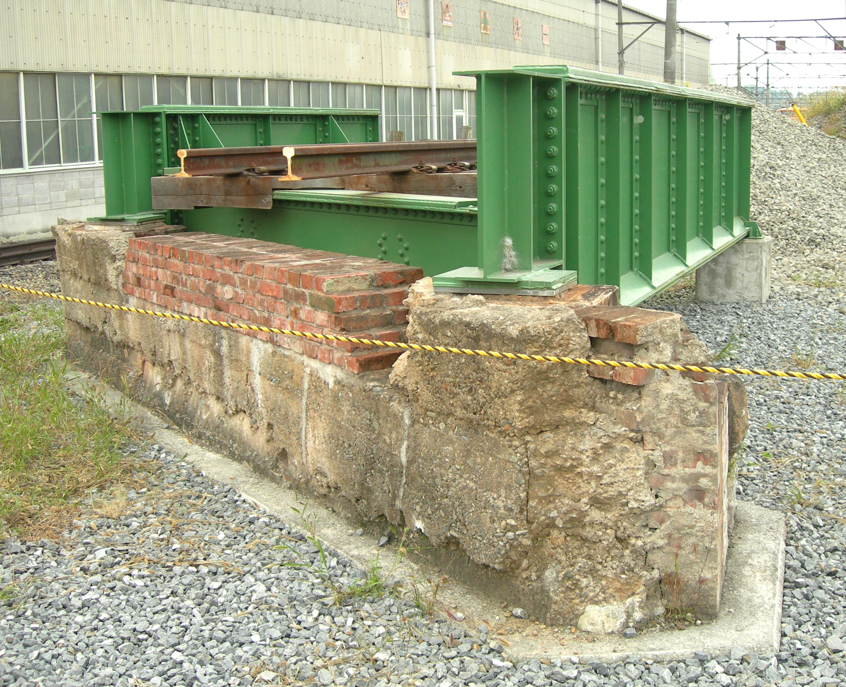 The Seibu Railway Yokoze Depot in Saitama Prefecture, Japan